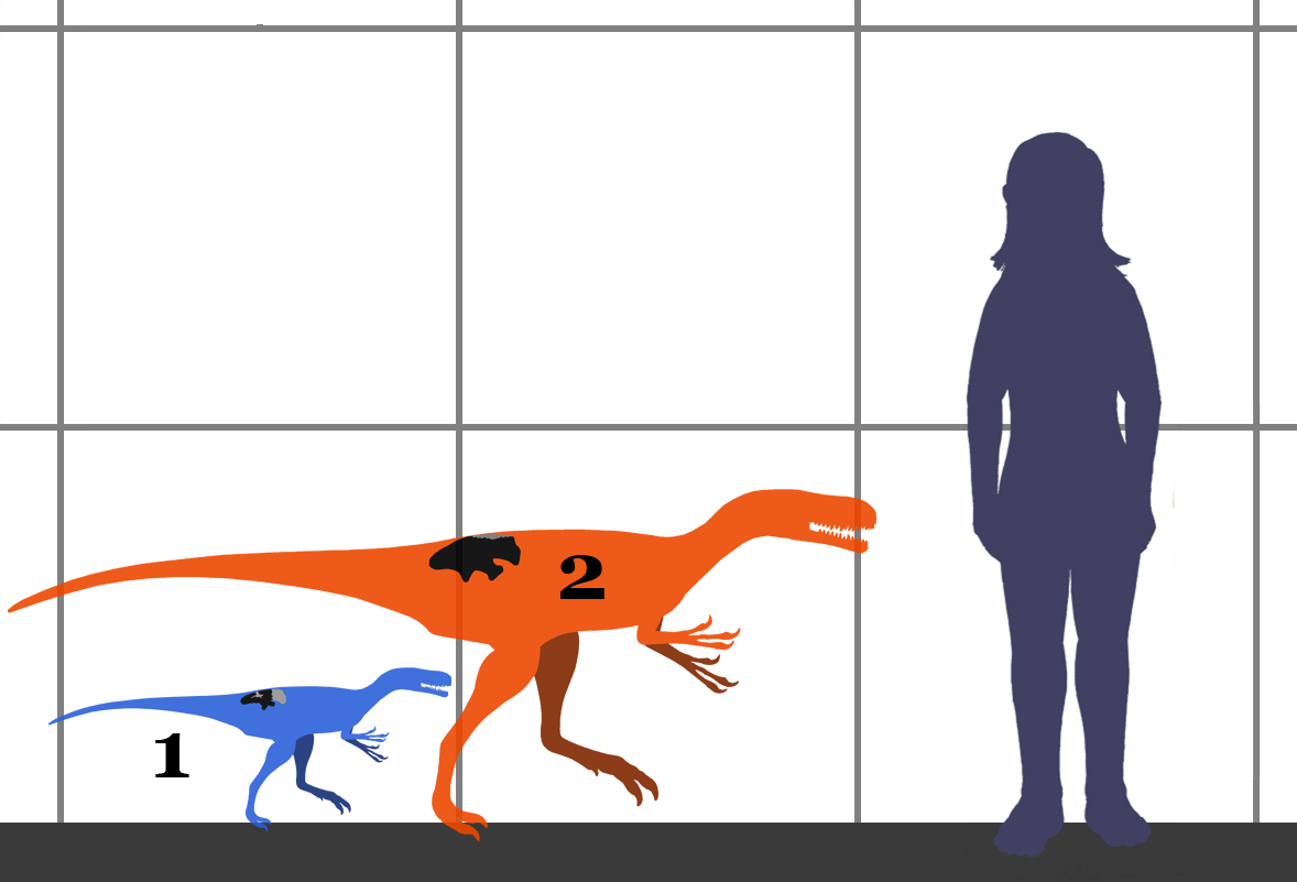 Size comparison between the 2 known specimens of Stokesosaurus (Dinosauria, Saurichia, Theropoda, Coelurosauria, Tyrannosauroidea), based on their ilium bones. 1. The small South Dakota specimen, an alleged juvenile.[1] 2. The S. clevelandi holotype (UUVP 2938) from Utah.[2] References ↑ Chure D.J., Foster J.R. (2000), "An Ilium of a Juvenile Stokesaurus (Dinosauria, Theropoda) from the Morrison Formation (Upper Jurassic: Kimmeridgian), Meade County, South Dakota", Brigham Young University Geology Studies 45: p. 5-10. ↑ Madsen J.H. (1974), "A new theropod dinosaur frome the upper Jurassic of Utah", Journal of Paleontology 48(1): p. 27-31.